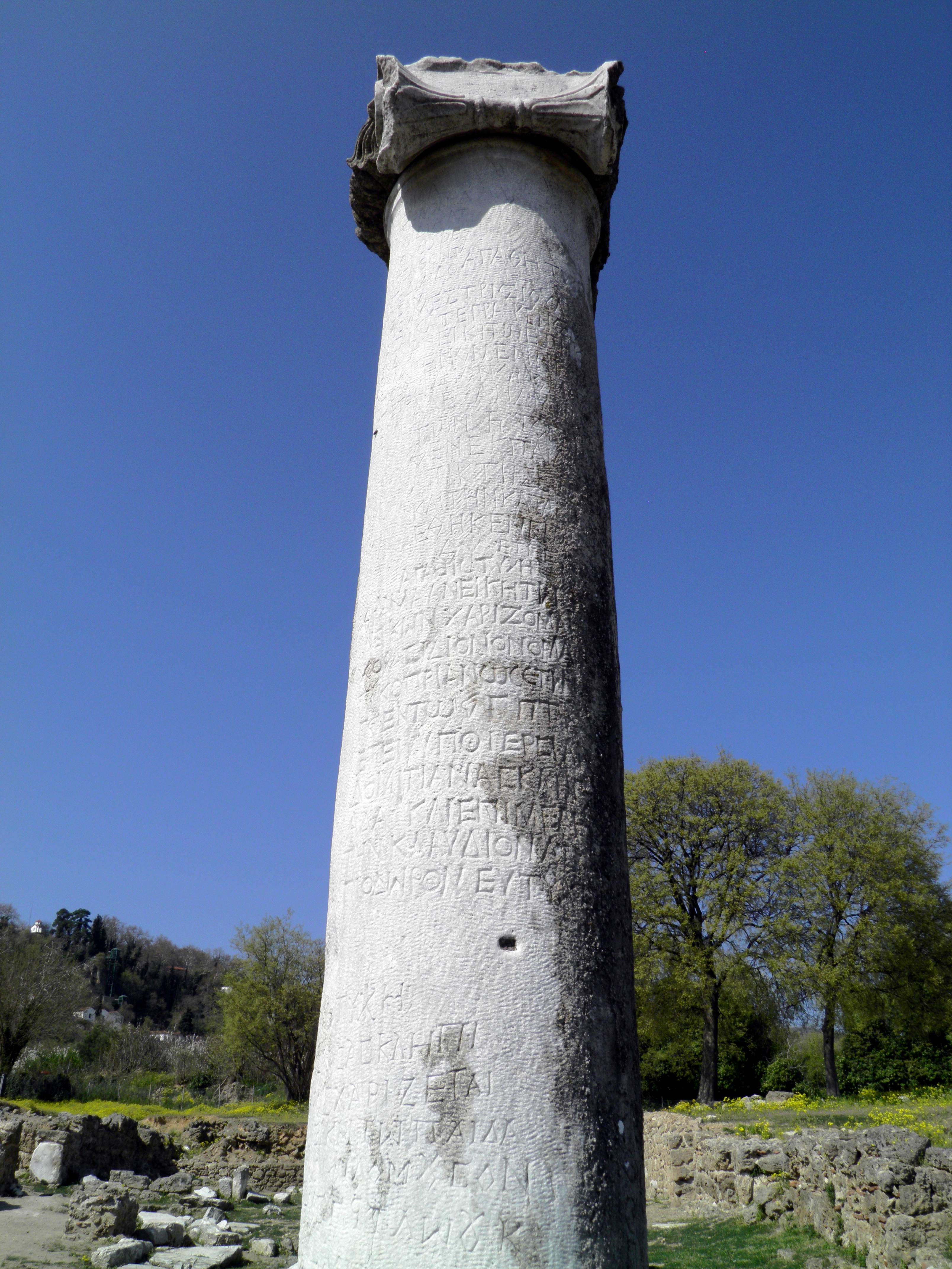 The inscribed column in the east gallery, two other inscriptions found at the south gate that have been removed for safekeeping and part of another inscribed column at the Agia Triacia Monastery are just someof the architectural members of the Temple of the goddess Ma, which alter the destructionof the monument in most probably AD 268 by Gothic raiders, were reused in the city's Early Christian buidings. The goddess Ma is identified with or was venerated together iwht Great Mother. Her cult with prehistoric roots, flourished particularly in the Roman age when Easter cults spread throughout the Empire and among them the cult of homonymous goddess of Cappadocia. The seventeen inscriptions on the column and those on the other architectural members date from AD 211 to 267. One of the inscriptions mentions the construction of outbuildings and a gallery, another the donation of a vineyard of two plethra (a plethron= 874 m2). Most of them, however record the manumission of slaves who were dedicated to the invincible goddess Ma. In addition to giving important information about the legal system and the calendar in use at the time, these inscriptions also record the names of priestesses and curators of the Temple and of inhabitants of the city and their occupations.